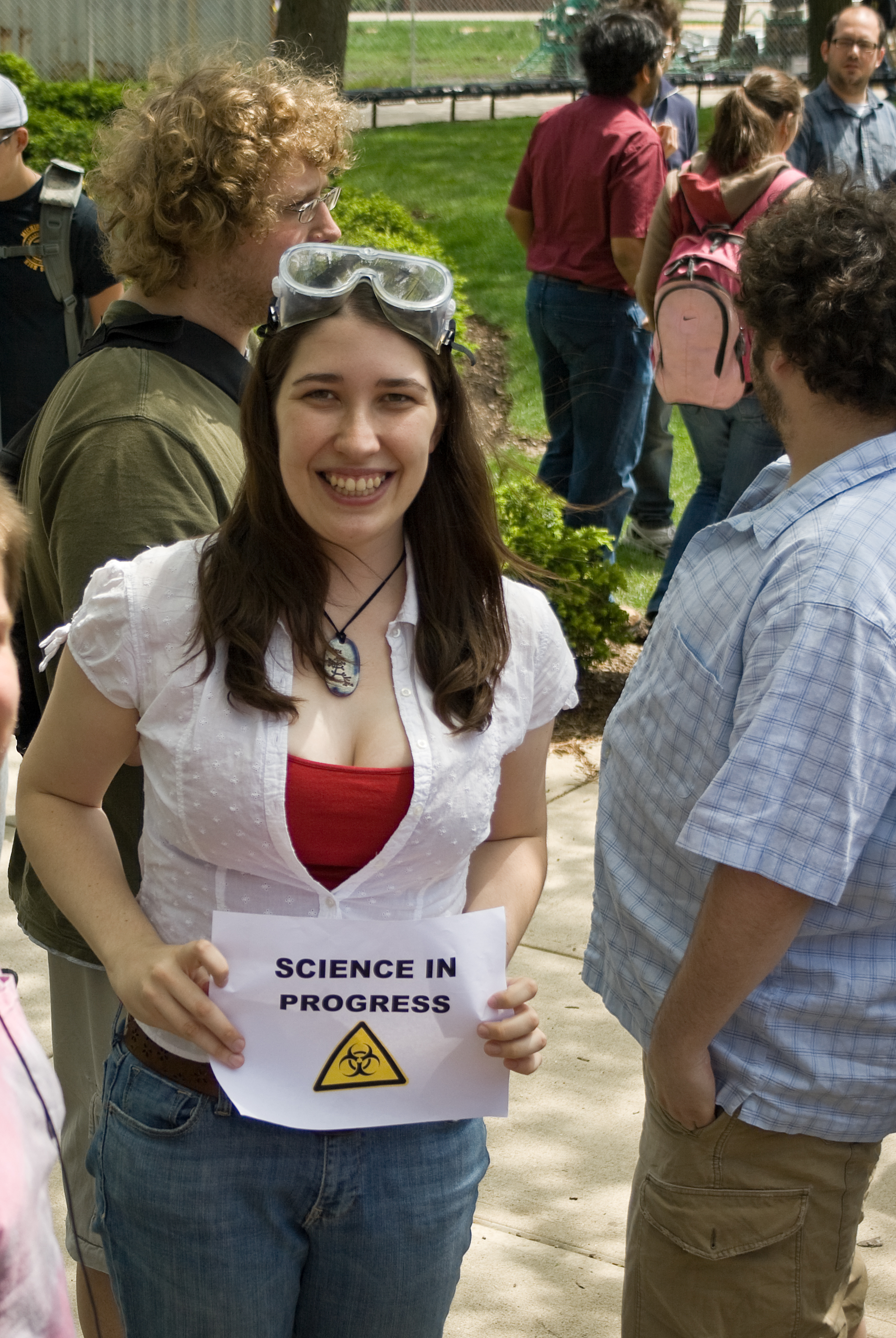 Jennifer McCreight, founder of Boobquake, participating in the "experiment".